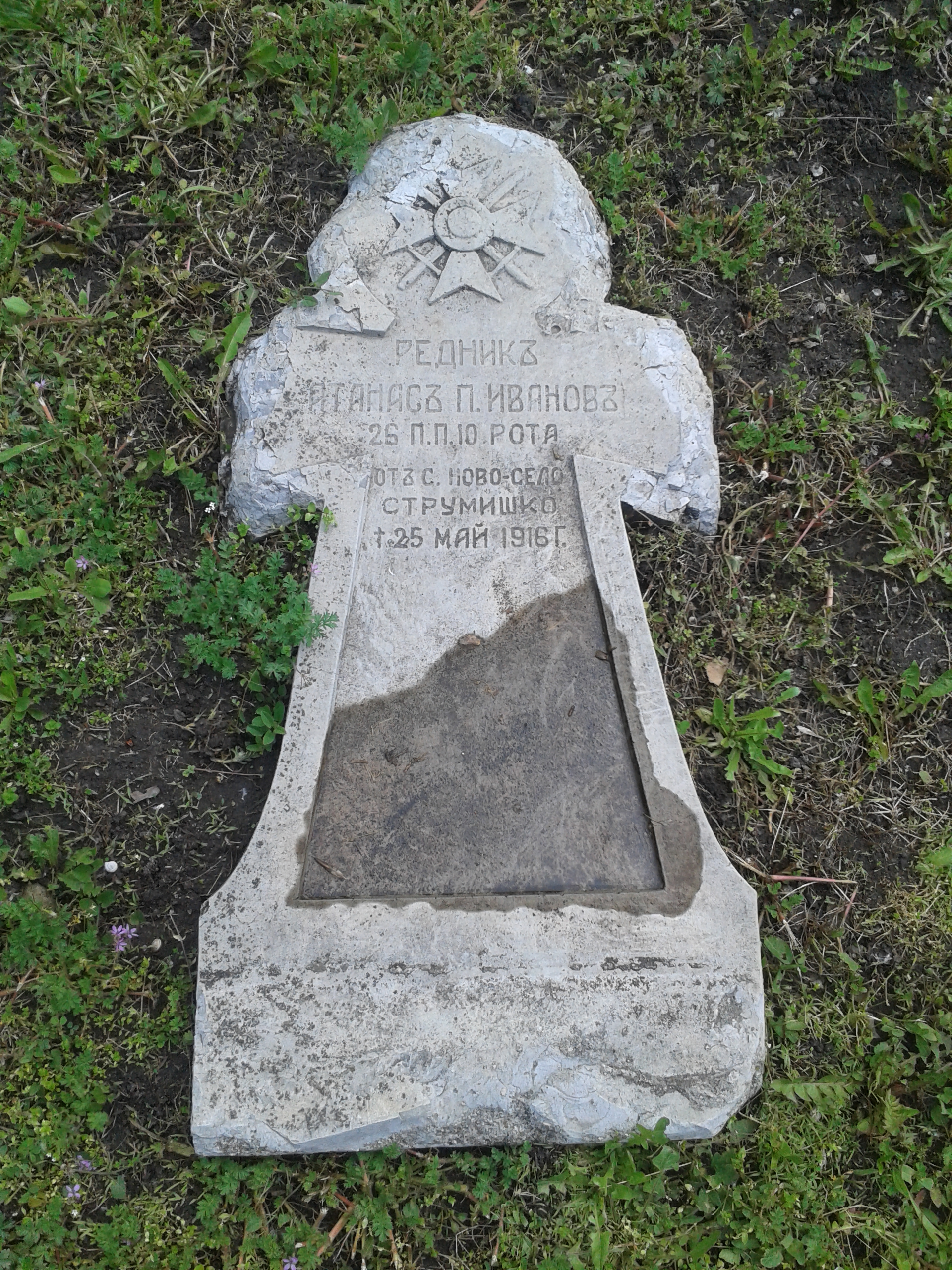 Atanas Ivanov from Novo Selo, Strumitsa, Gravestone